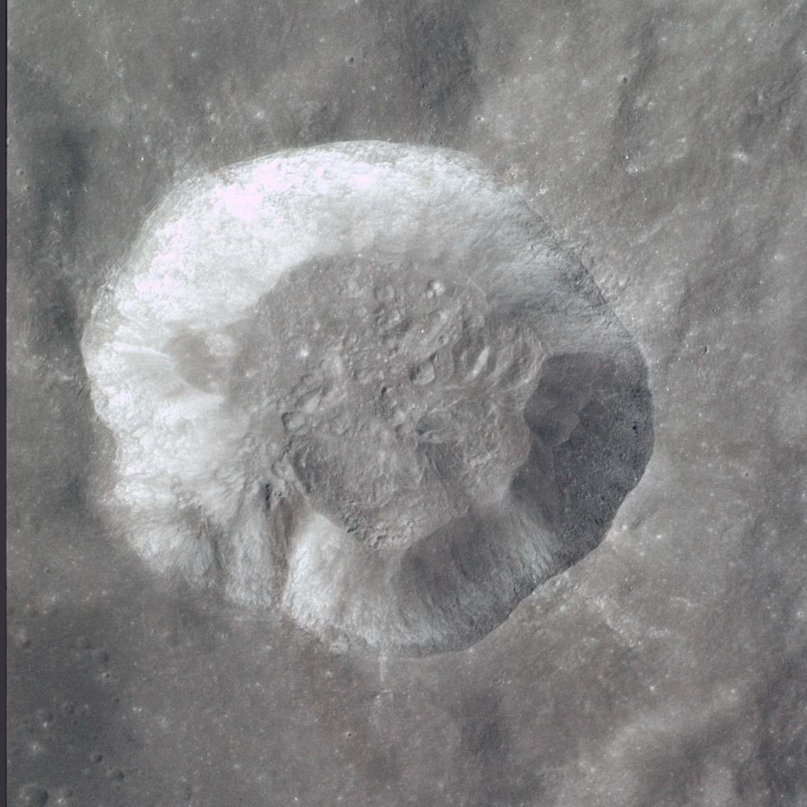 Slightly oblique view of Proclus, on the moon. This is cropped from the original which was published in the Apollo 17 Preliminary Science Report (NASA SP-330), 1973, as Figure 4-48, which has the following caption: Proclus, the most prominent excluded-ray-zone crater on the near side of the Moon, has been difficult to photograph successfully because of the brightness of its rays. In this near-vertical photograph, interior details are clear despite the relatively high Sun angle when exposed on revolution 28. North is at the top of the photograph. The object at the right (not shown) is the CSM EVA floodlight.